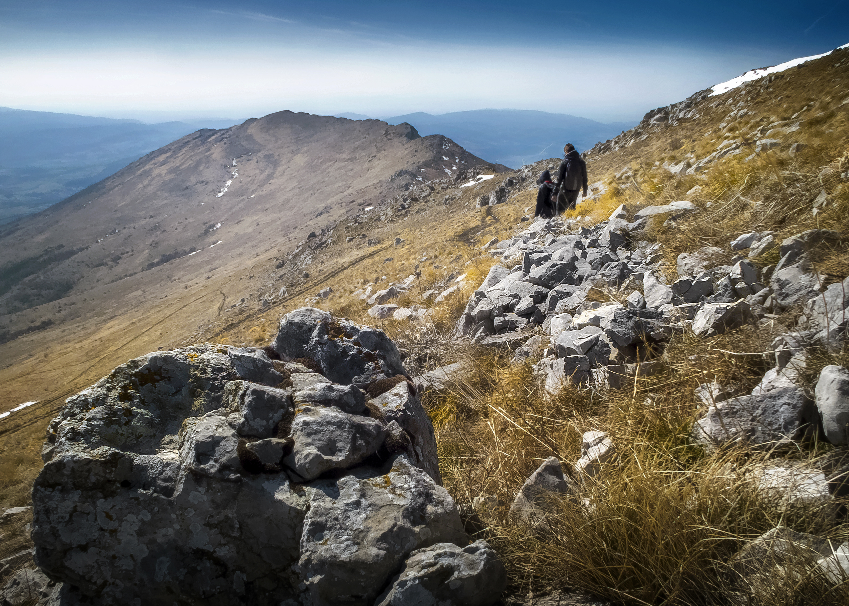 Rtanj mountain, Eastern Serbia